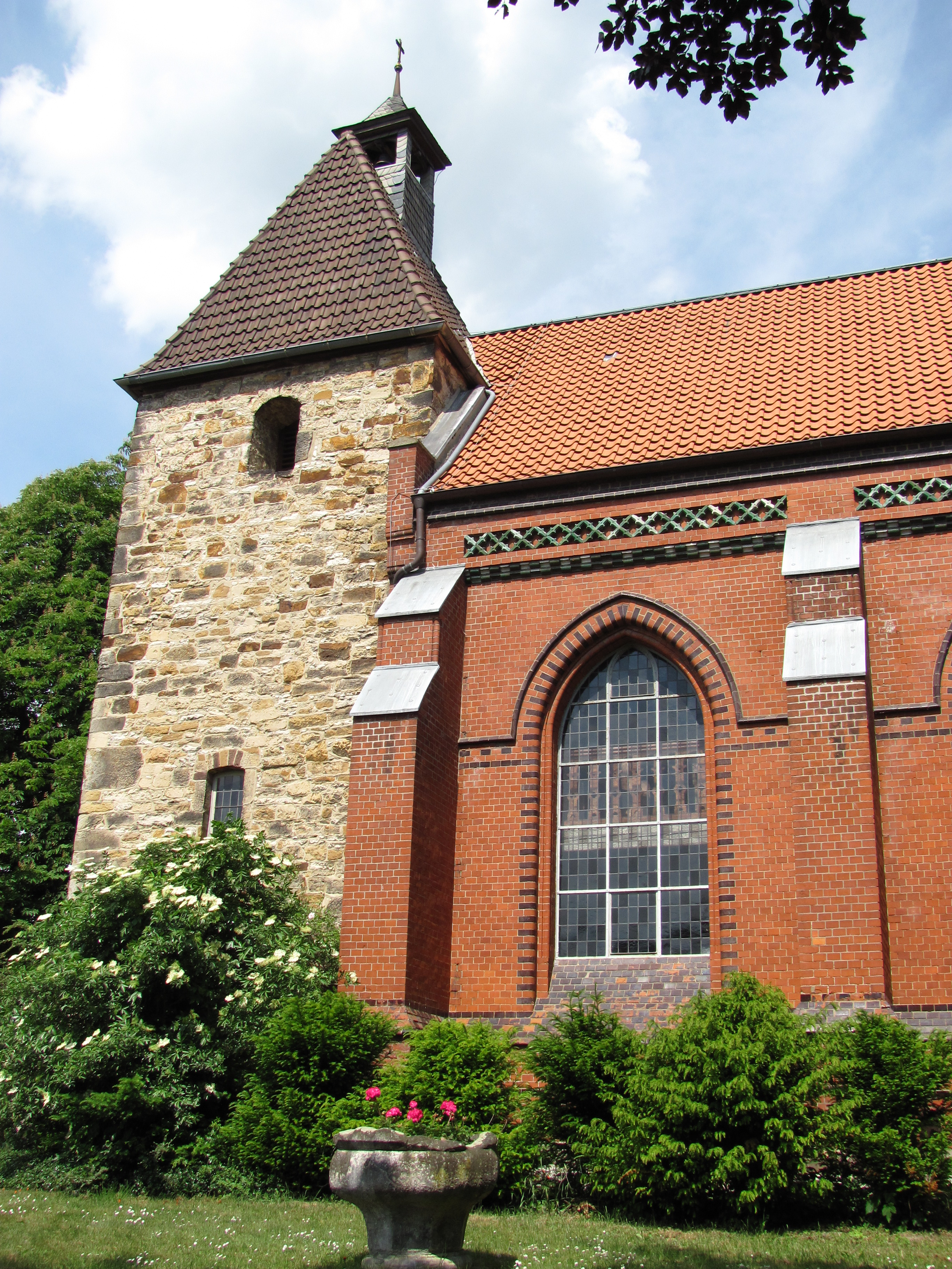 Protestant Church, Schellerten-Kemme, Lower Saxony, Germany